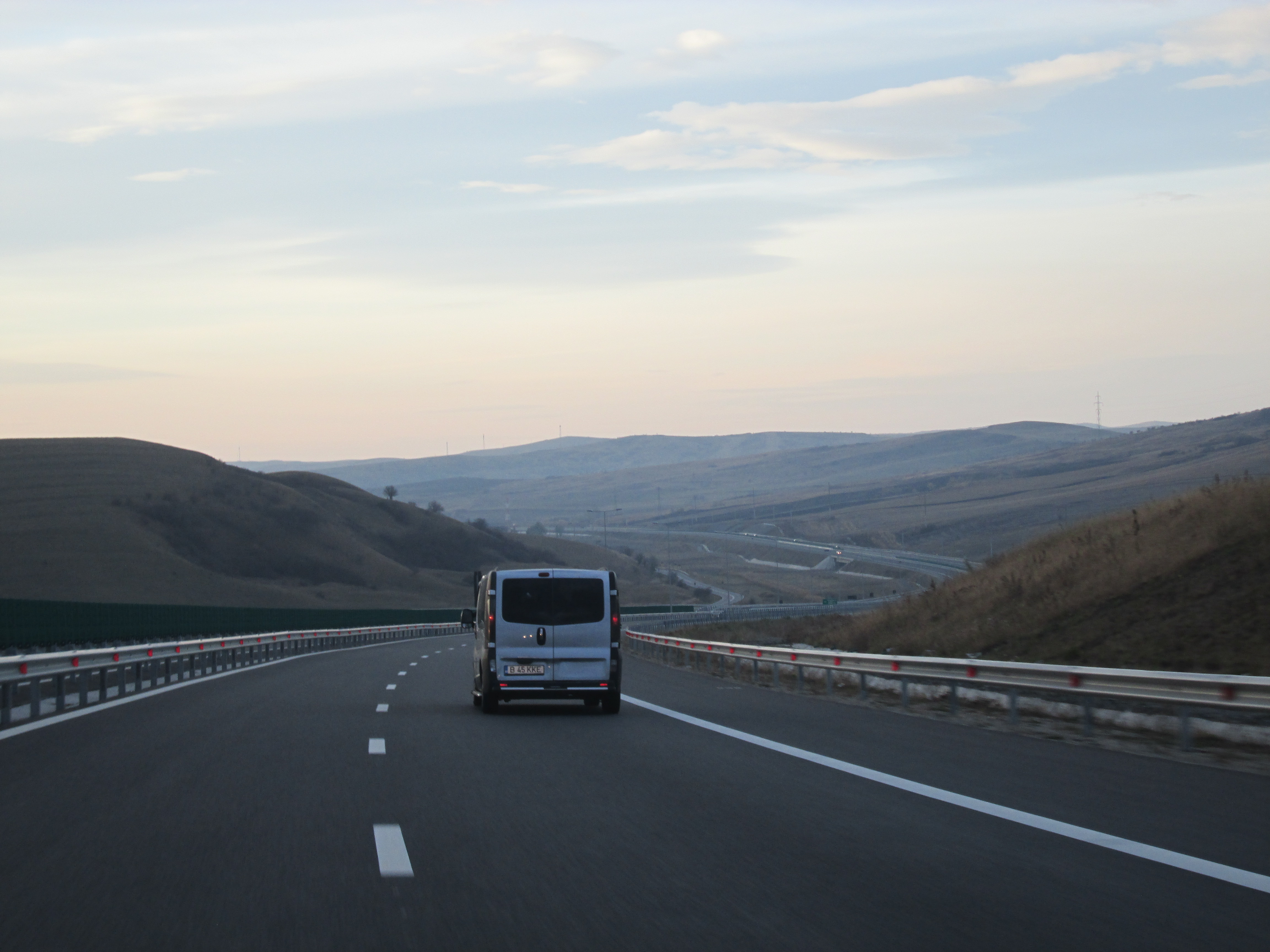 A10 Motorway between Turda and Aiud, one of the newest motorways in Romania, having opened on 30 July 2018.